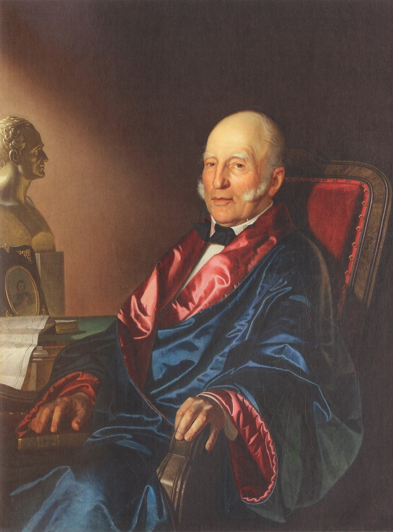 Rikord Peter Ivanovich (in robe)